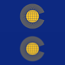 Two images of the Flag of the Commonwealth of Nations, reduced from 2048×1024 to 128×64. The images were resized with cubic interpolation, but a Gaussian blur with σ = 32px was applied to the bottom image before downscaling. The blur makes the image less sharp, but prevents the formation of aliasing artifacts. (In the actual flag, the spears are straight, radially directed, and do not touch each other.)